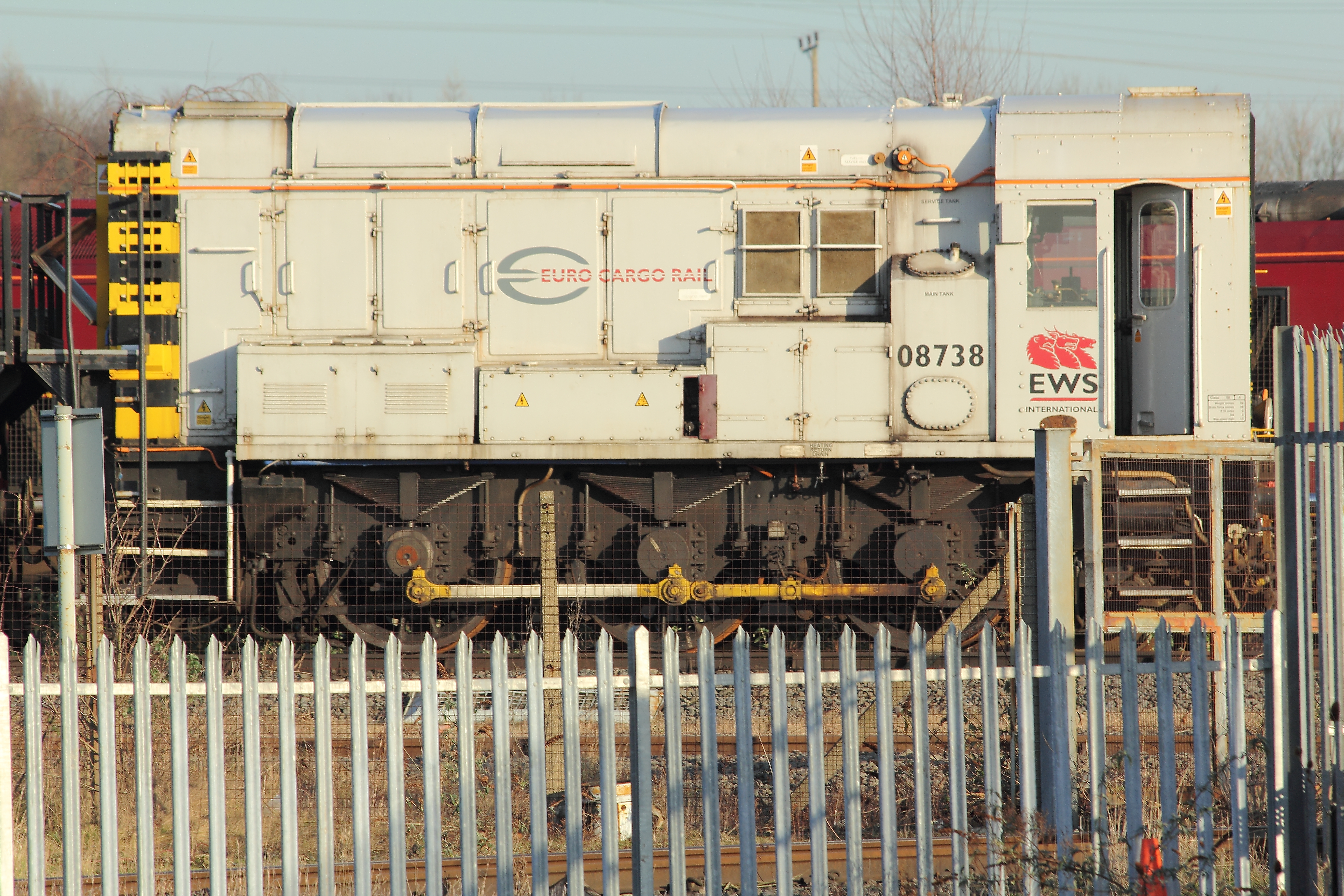 Toton Traction Maintenance Depot The British Rail Class 08 is a class of diesel-electric shunting locomotive. From 1953 to 1962, 996 locomotives were produced, making it the most numerous of all British locomotive classes. As the standard general-purpose diesel shunter on BR, almost any duty requiring shunting would involve a Class 08. The class became a familiar sight at many major stations and freight yards.